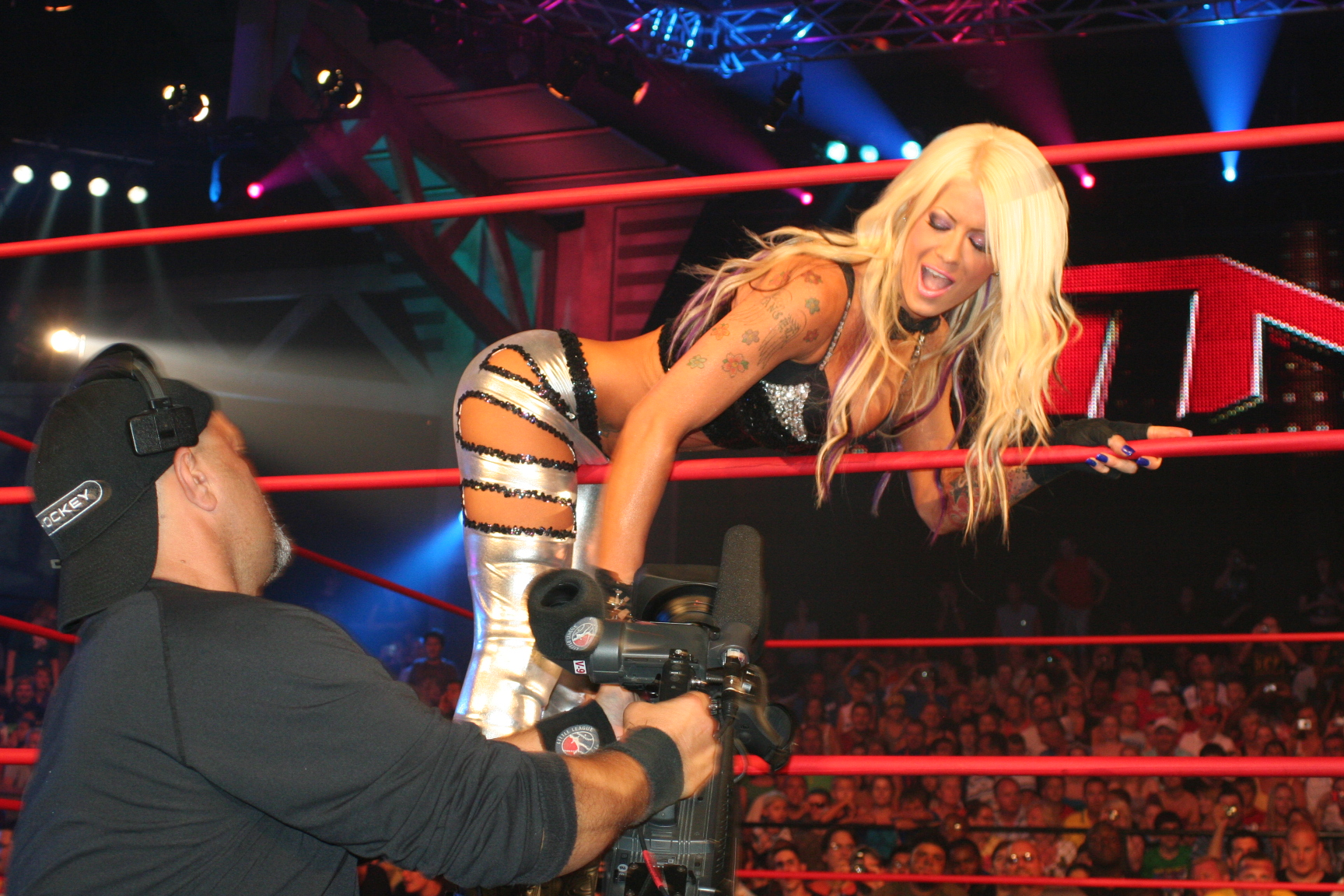 Professional wrestler Angelina Love at a TNA Impact! taping.